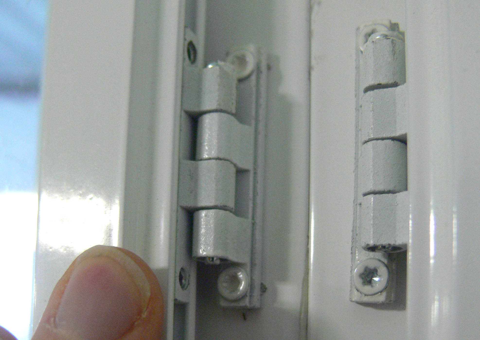 Upper view of au Special windows in a Retirement home (for energy efficiency), in Trith-Saint-Léger, in north of France, (dept : 59) in Nord-Pas-de-Calais region, made with ecological principles.